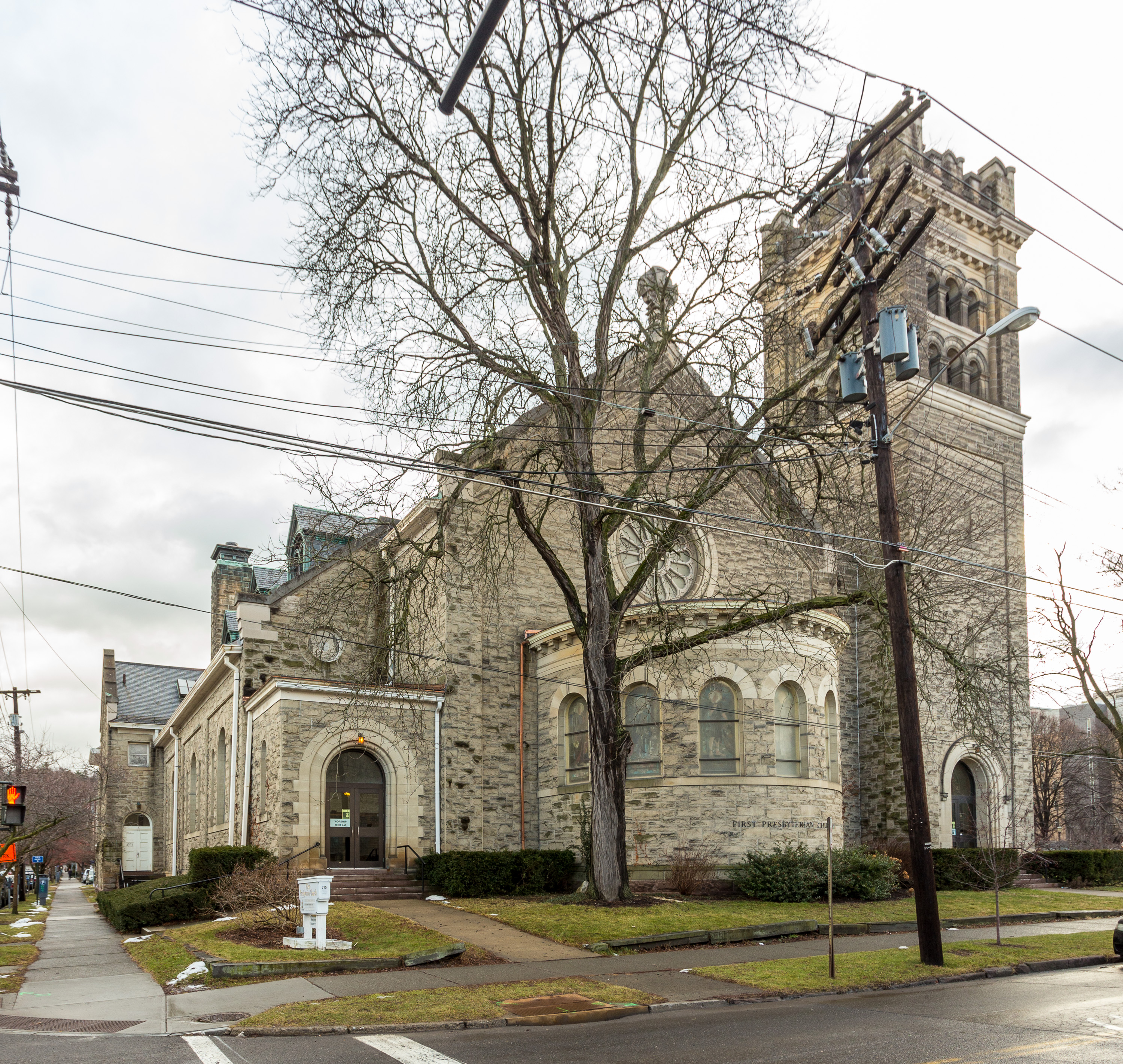 First Presbyterian Church, Architect: J. Cleaveland Cady Date: 1901 315 North Cayuga Street, Ithaca, NY